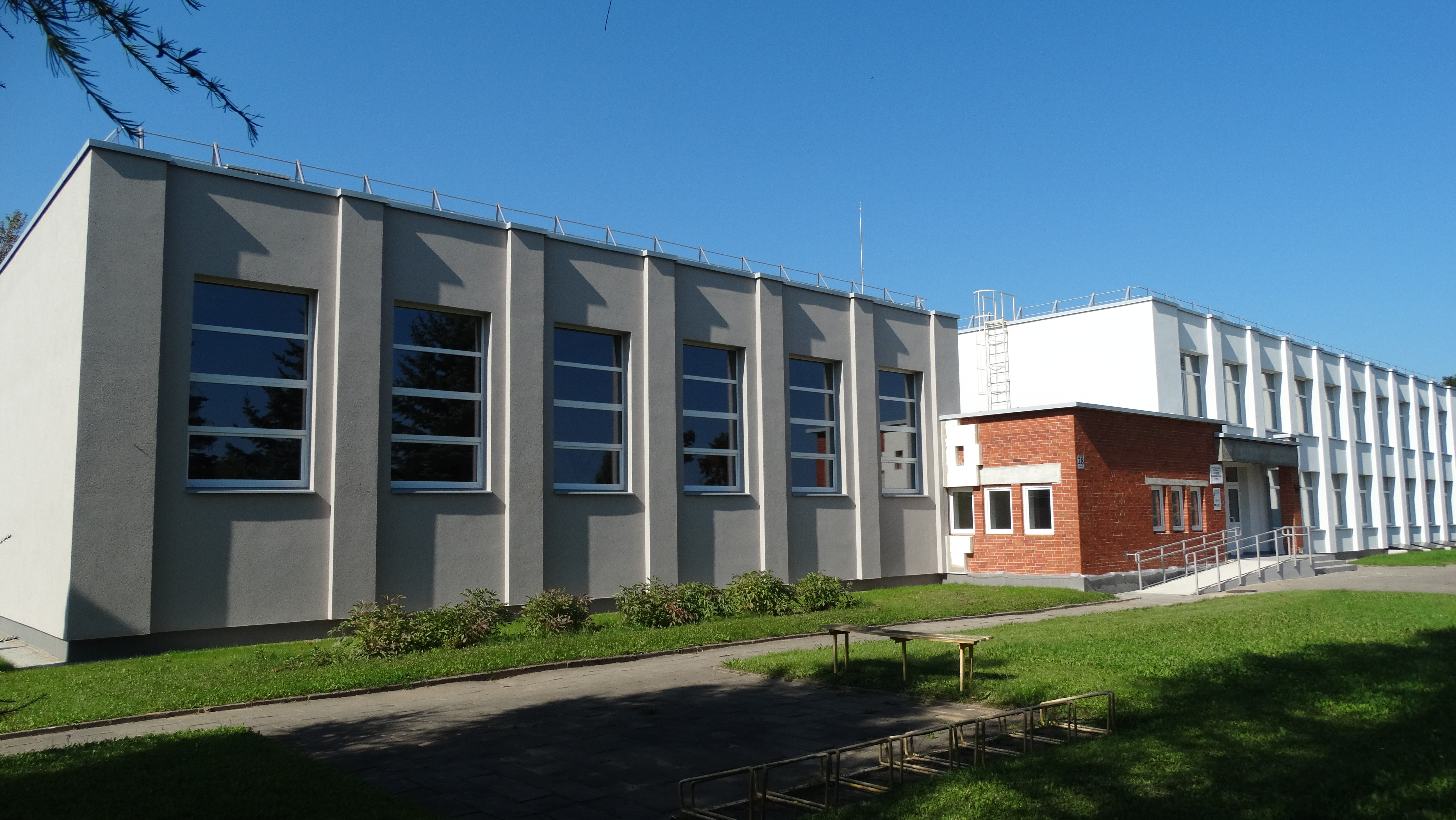 School, Suviekas, Zarasai District, Lithuania